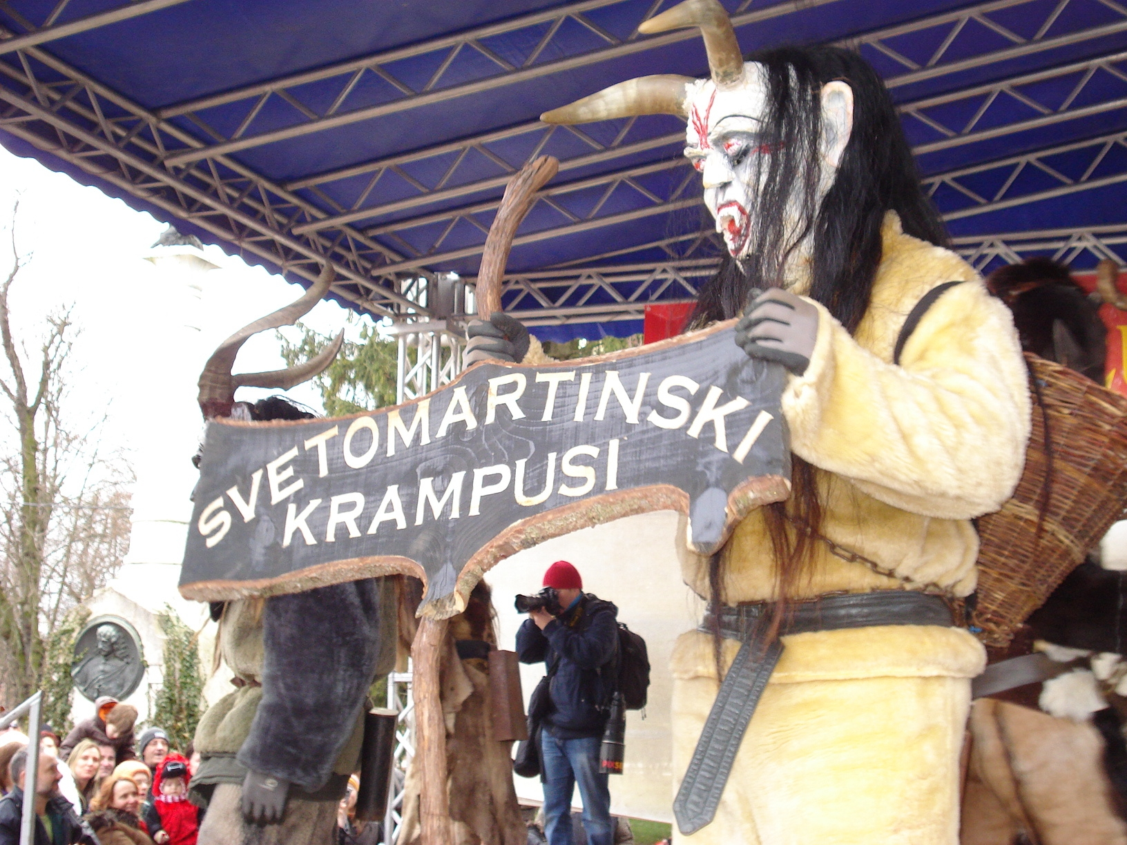 Medjimurje Carnival 2011 (Croatia) - Krampuses of Sveti Martin na Muri village